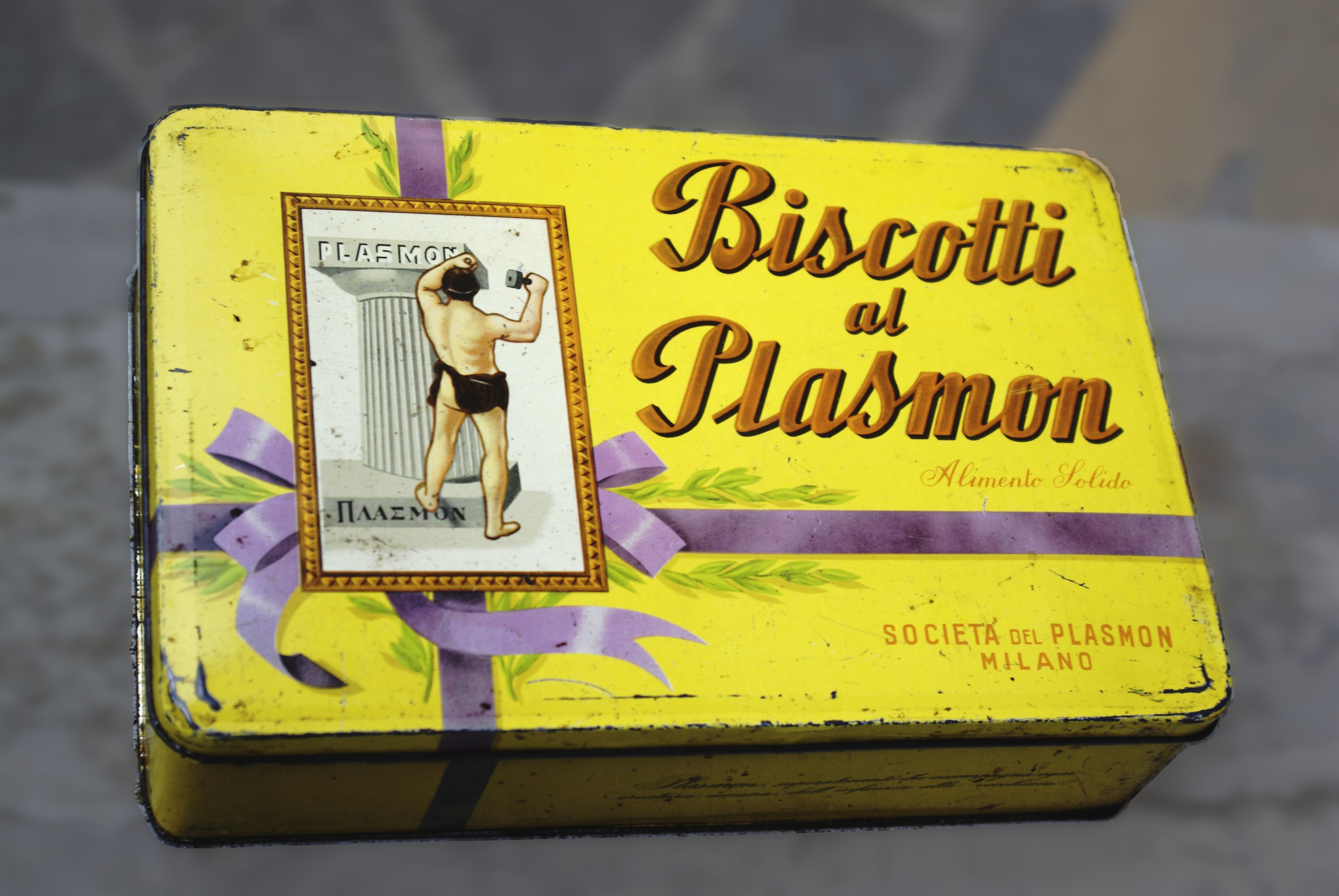 Metal box of Plasmon biscuits (1kg) early '60s